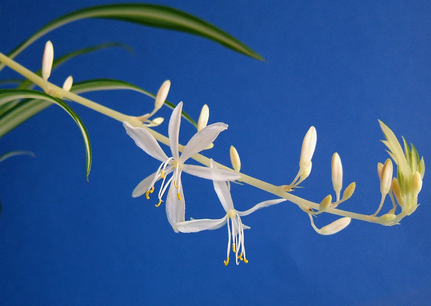 Spider Plant